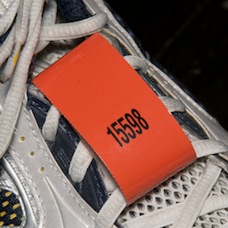 Photo taken by uploader of disposable RFID tag used to time runners at the 2009 Miami Marathon and Half-Marathon.